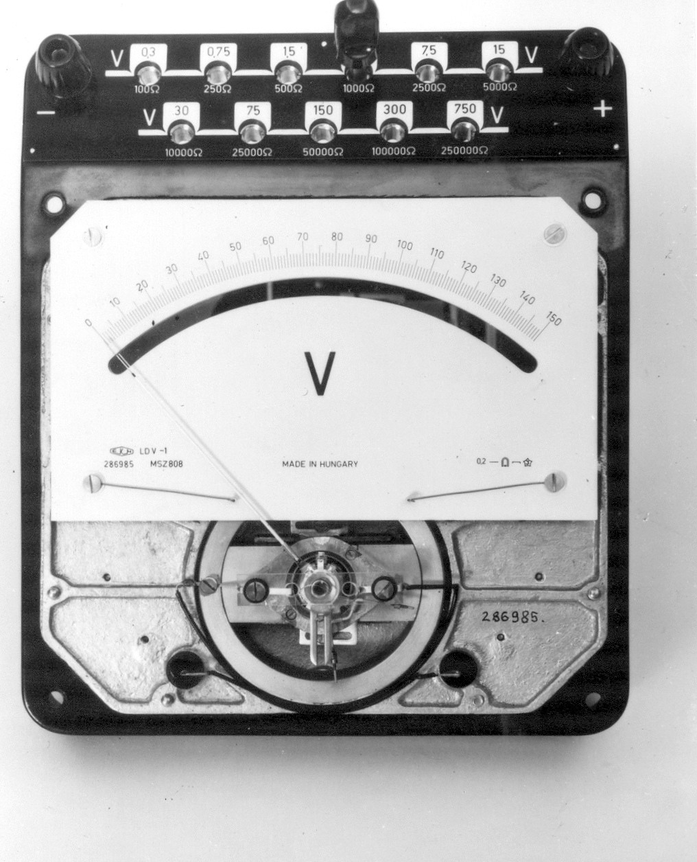 EKM factory product, Budapest